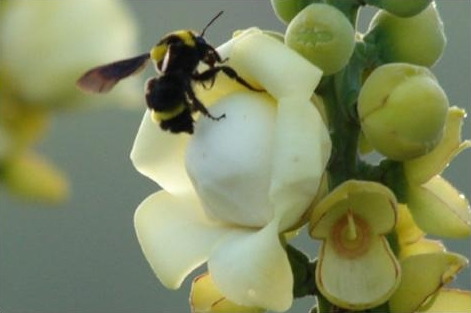 Bombus transversalis female: Approach to flowers of Brazil nut (Bertholletia excelsa) by distinct bee species in a commercial cultivation in the county of Itacoatiara, state of Amazonas, Brazil, 2007